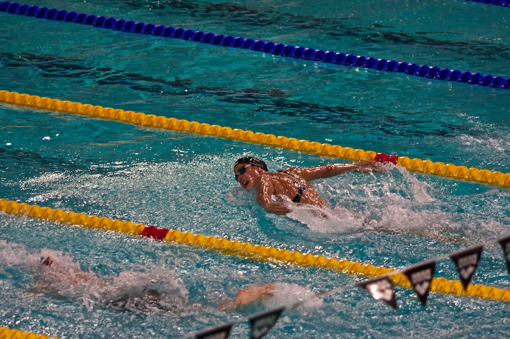 European short course championships 2010 Eindhoven Zsuzsanna Jakabos